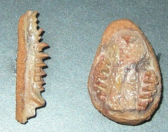 Skull and lower jaw of Zalambdalestes lechei, an eutherian mammal from the Upper Cretacious of the Gobi Desert (Central Asia). Museum of Evolution (Muzeum Ewolucji PAN), Warsaw.